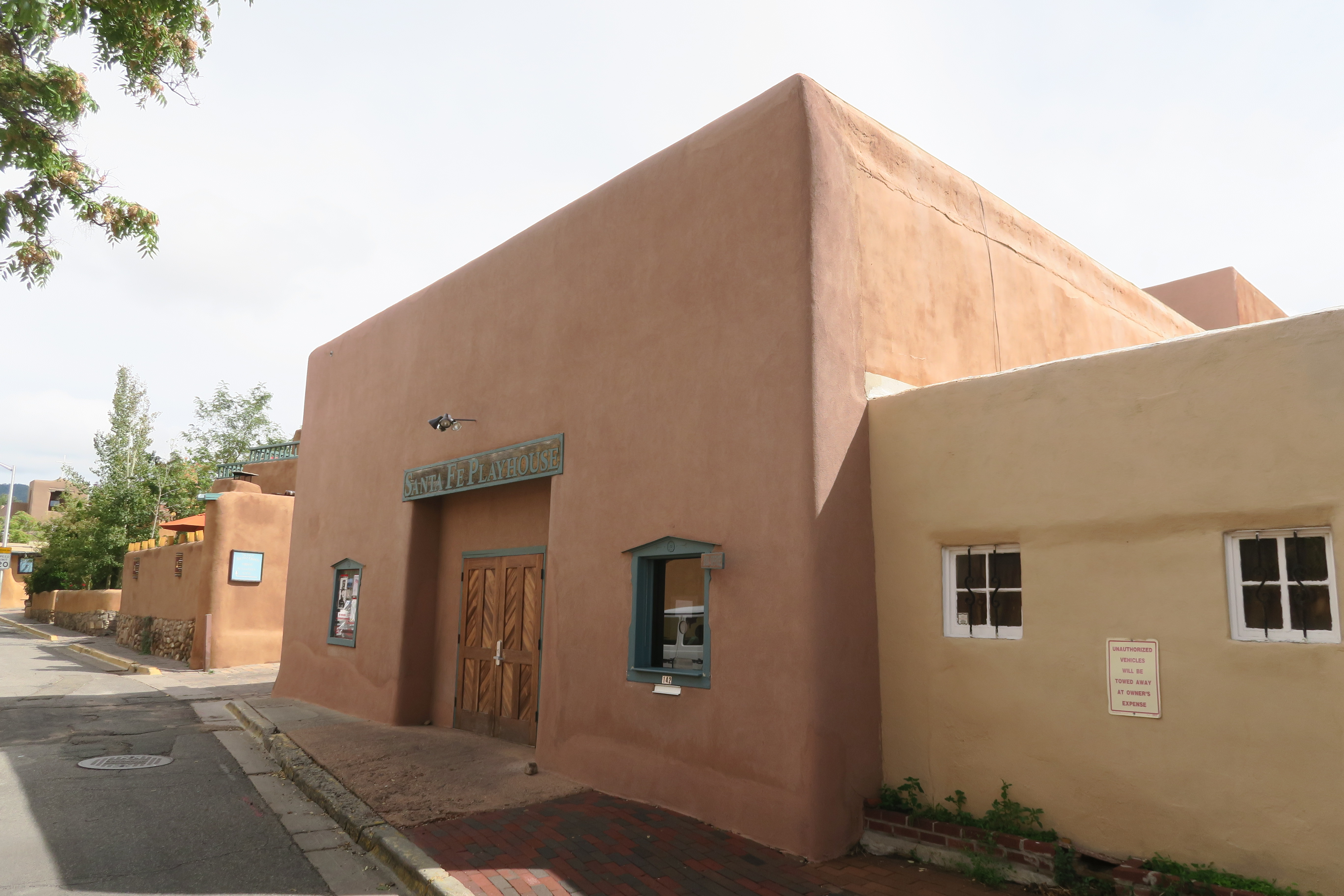 Santa Fe Playhouse, Santa Fe New Mexico